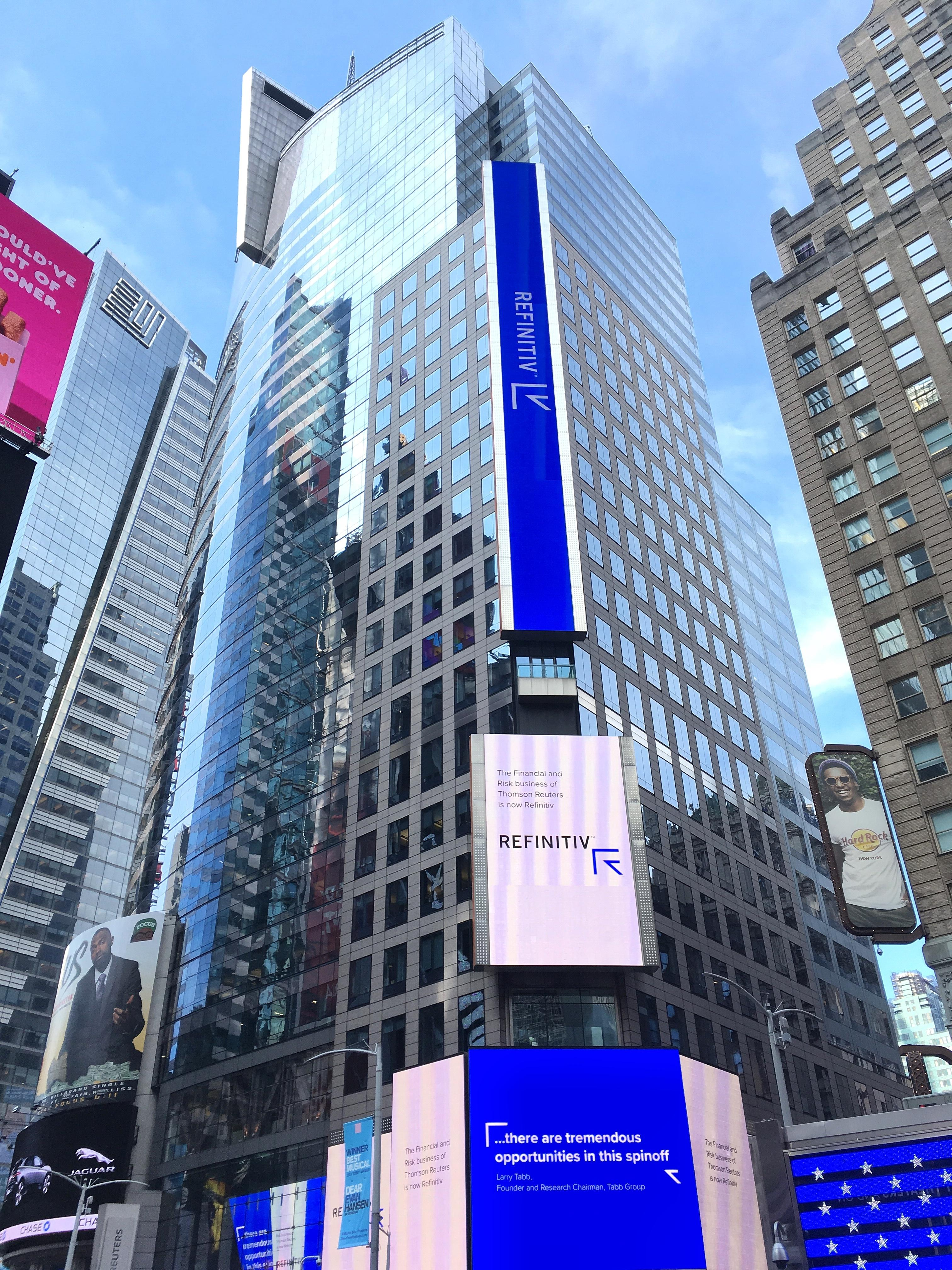 Refinitiv times square